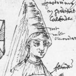 Sibylla d'Anjou, Countess of Flanders (1112 - 1165)